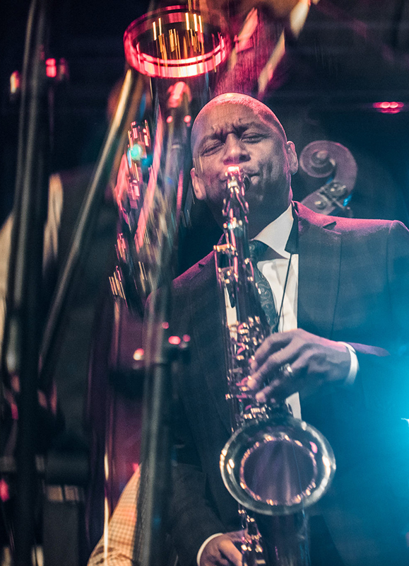 Branford Marsalis at a concert in Bielsko-Biala at the Lotos Jazz Festival